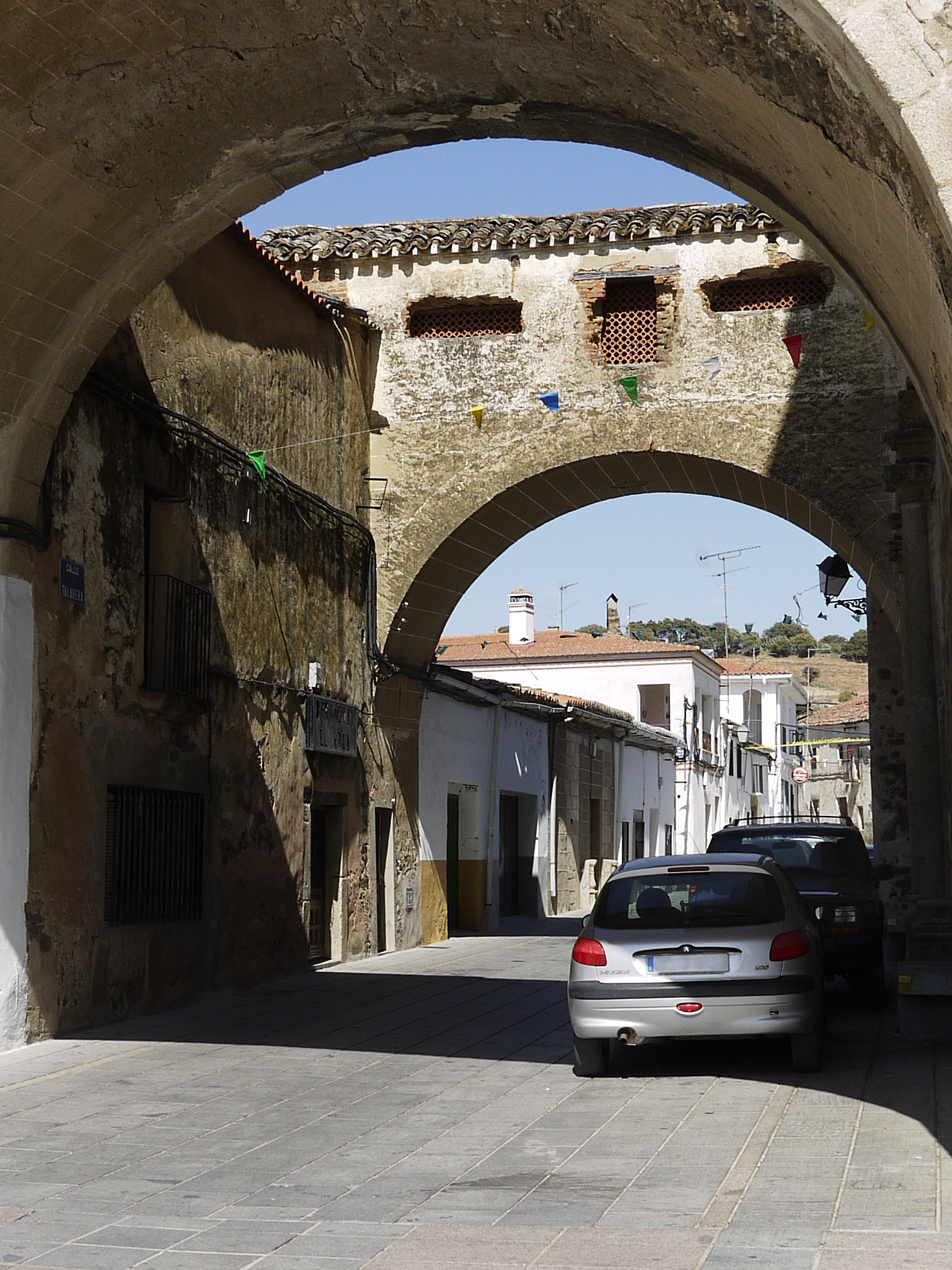 Jaraicejo, Prov. de Cáceres, Spain.